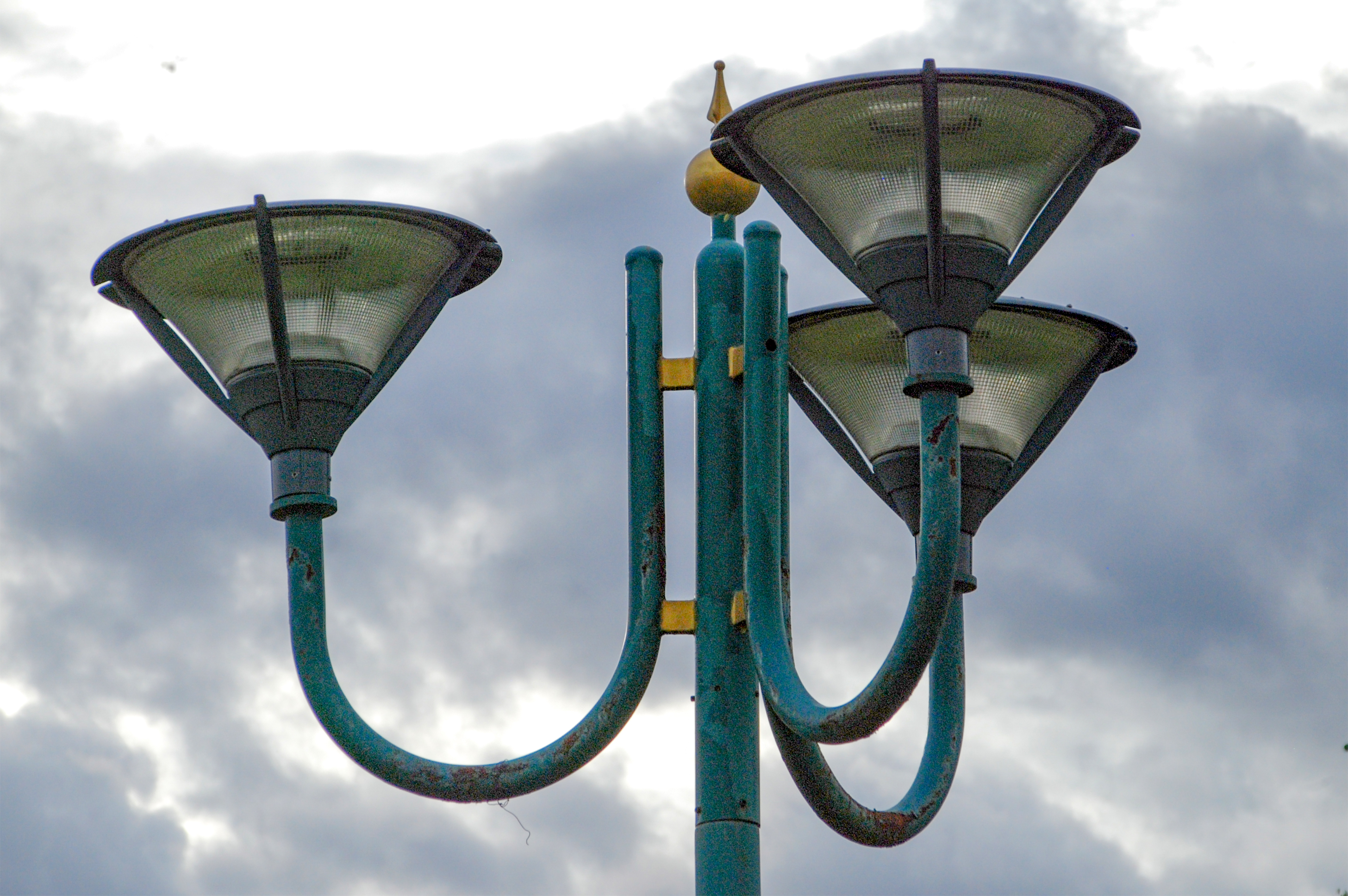 Light pole, Vidhana Soudha garden, Bengaluru, Karnataka, India.